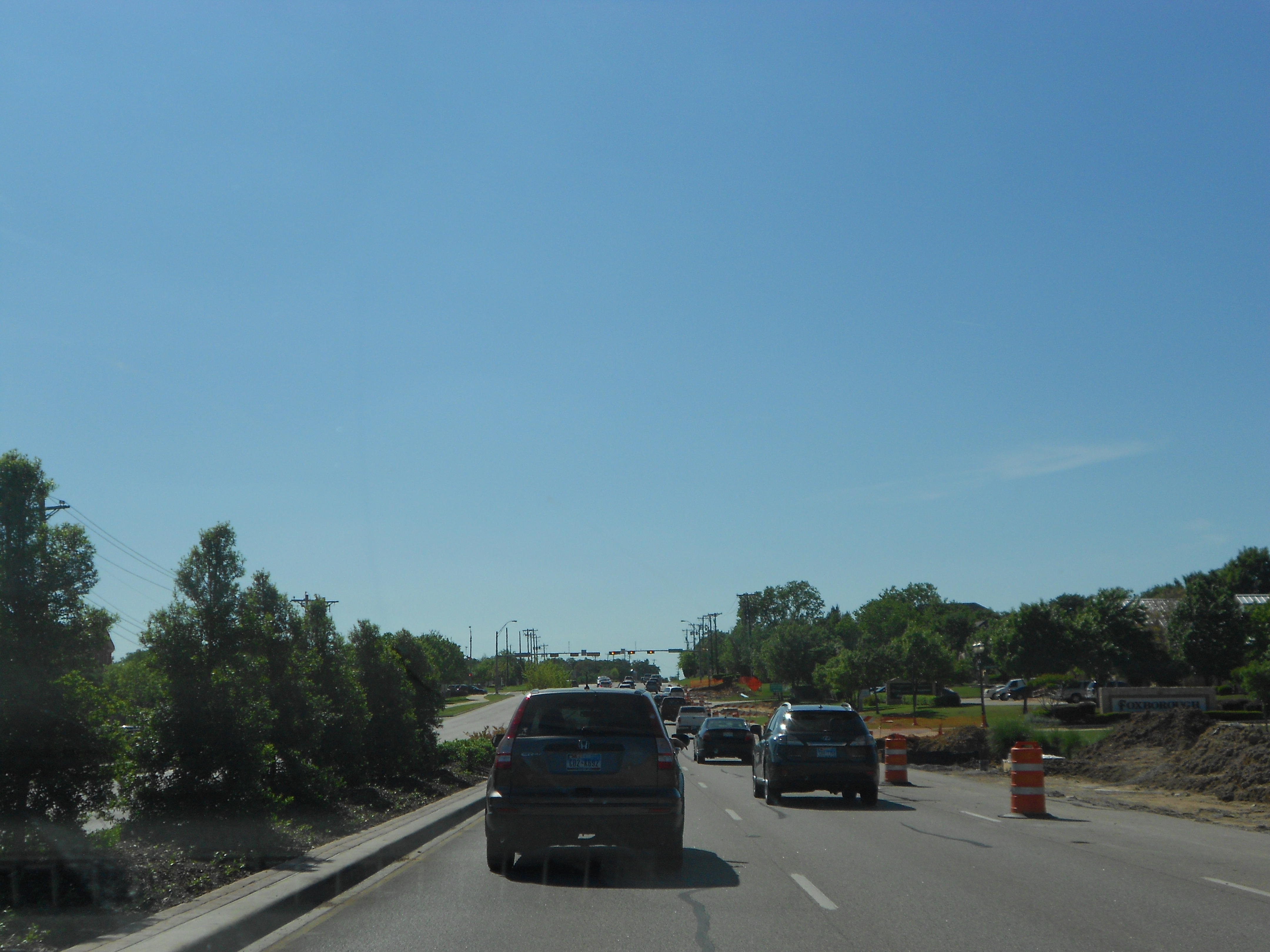 Looking west on FM 1709 in Southlake, with deceleration lane work visible.